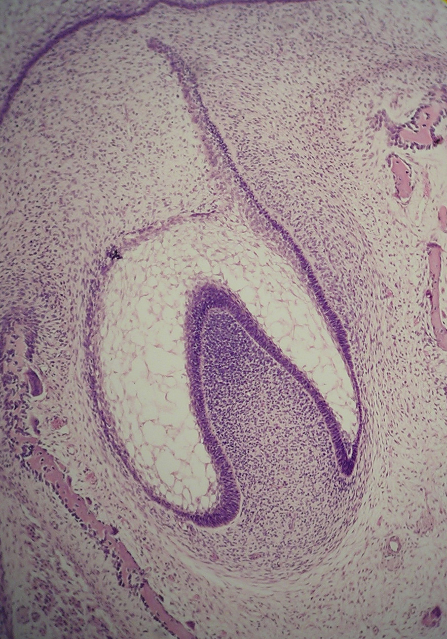 Histology of developing tooth with no labels. Tooth bud is in early bell stage. Photo taken by Dozenist.